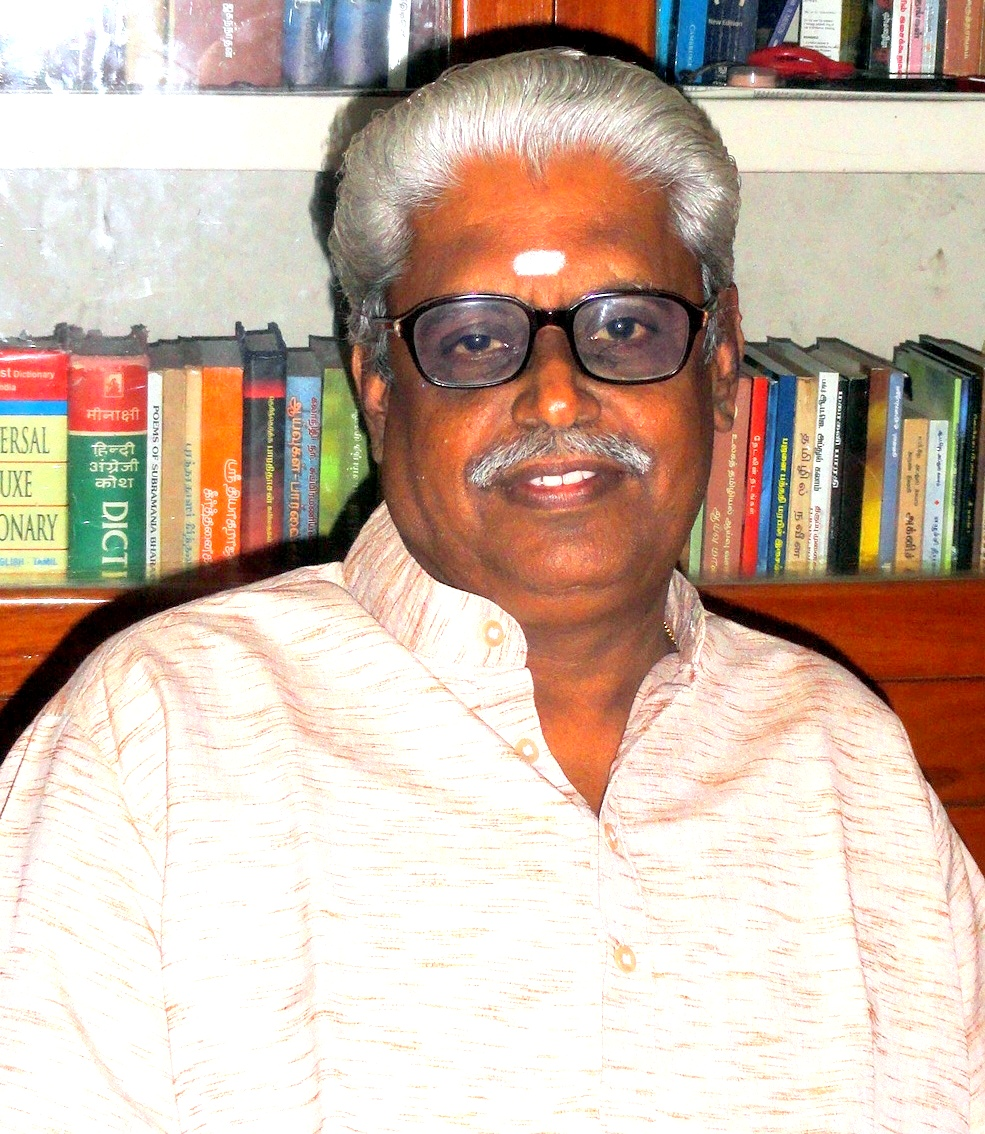 அரிமளம் சு. பத்மநாபன்